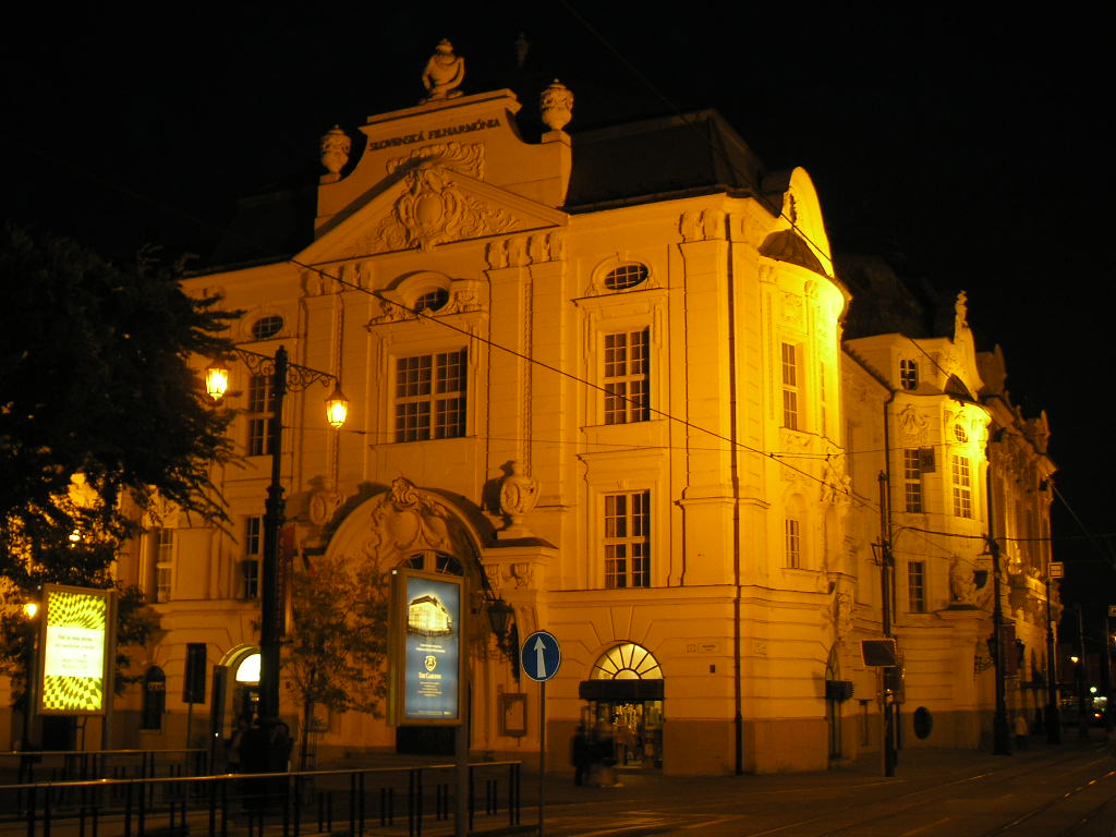 Image of the Slovenská Filharmónia Bratislava (Slovak Philharmony), in Bratislava, Slovakia. This medium shows the protected monument with the number 101-129/0 in the Slovak Republic.